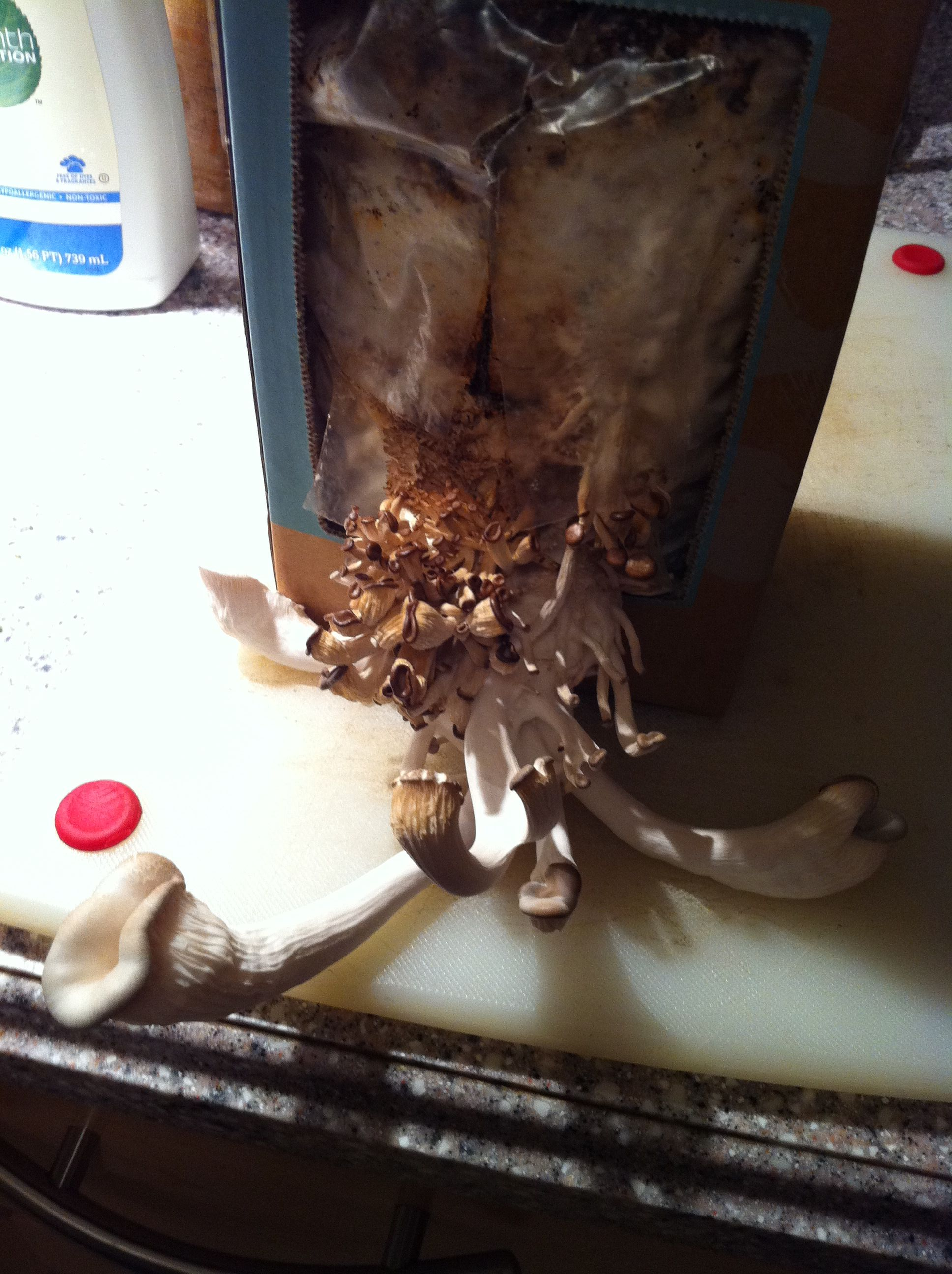 home mushroom growing kit, as sold by BTTR Ventures, based in Oakland, california.